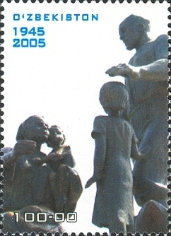 Stamps of Uzbekistan, 2005